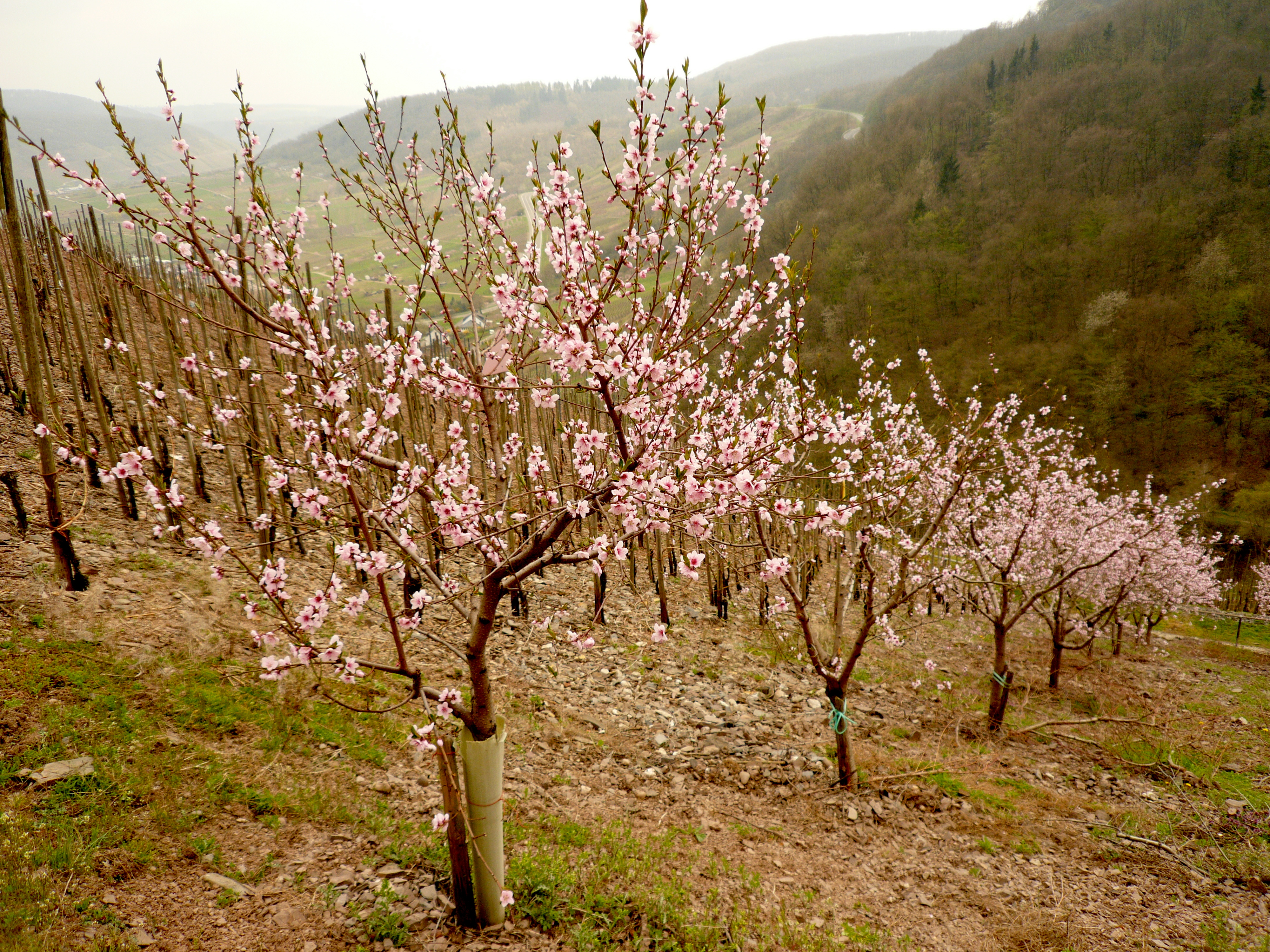 Kind of peach growing in Mosel valley